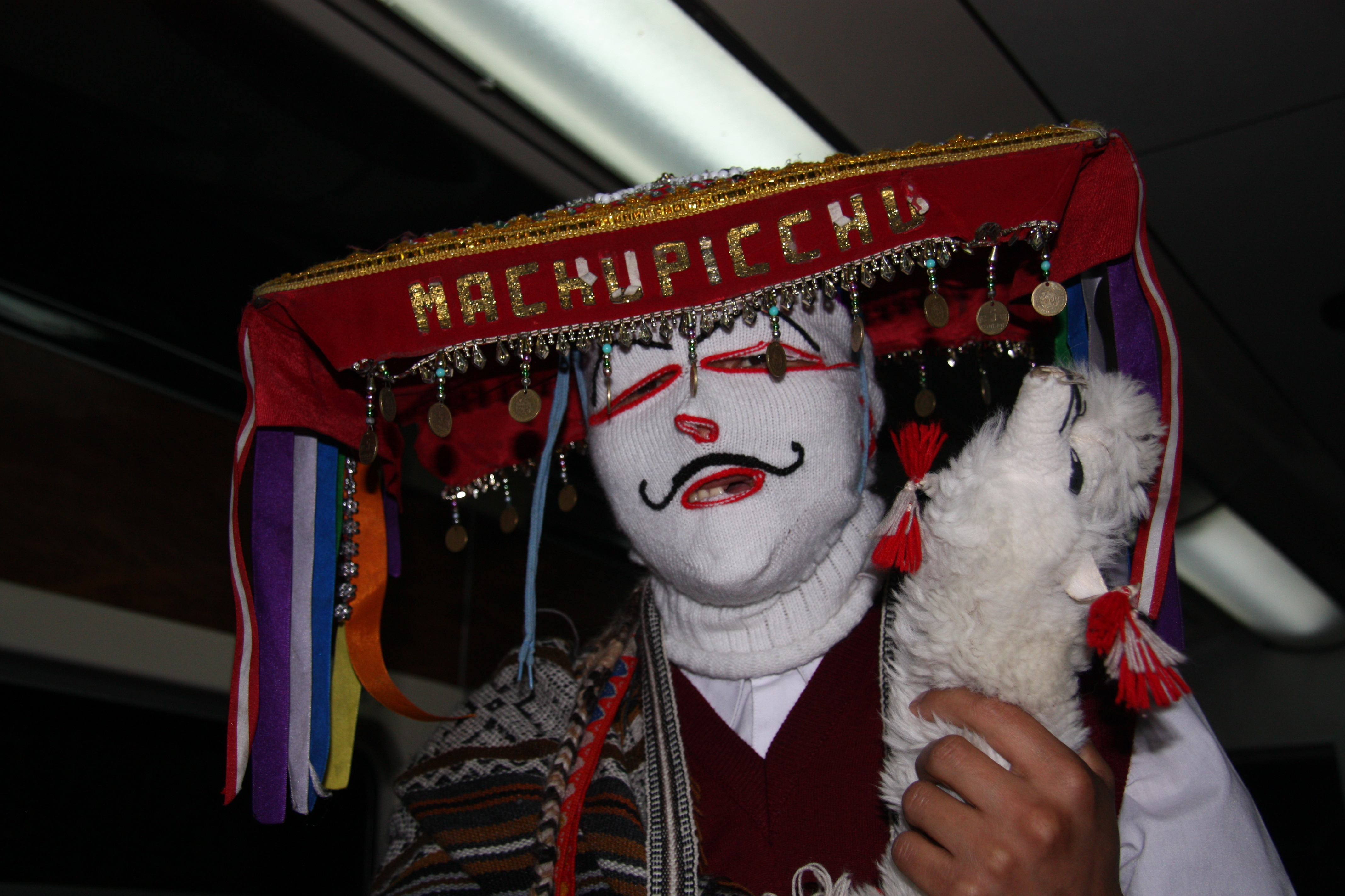 Quechuan Supay (Devil)